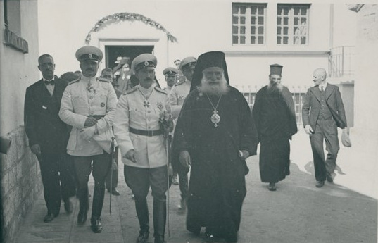 Boris III of Bulgaria in Vidin, Bulgaria